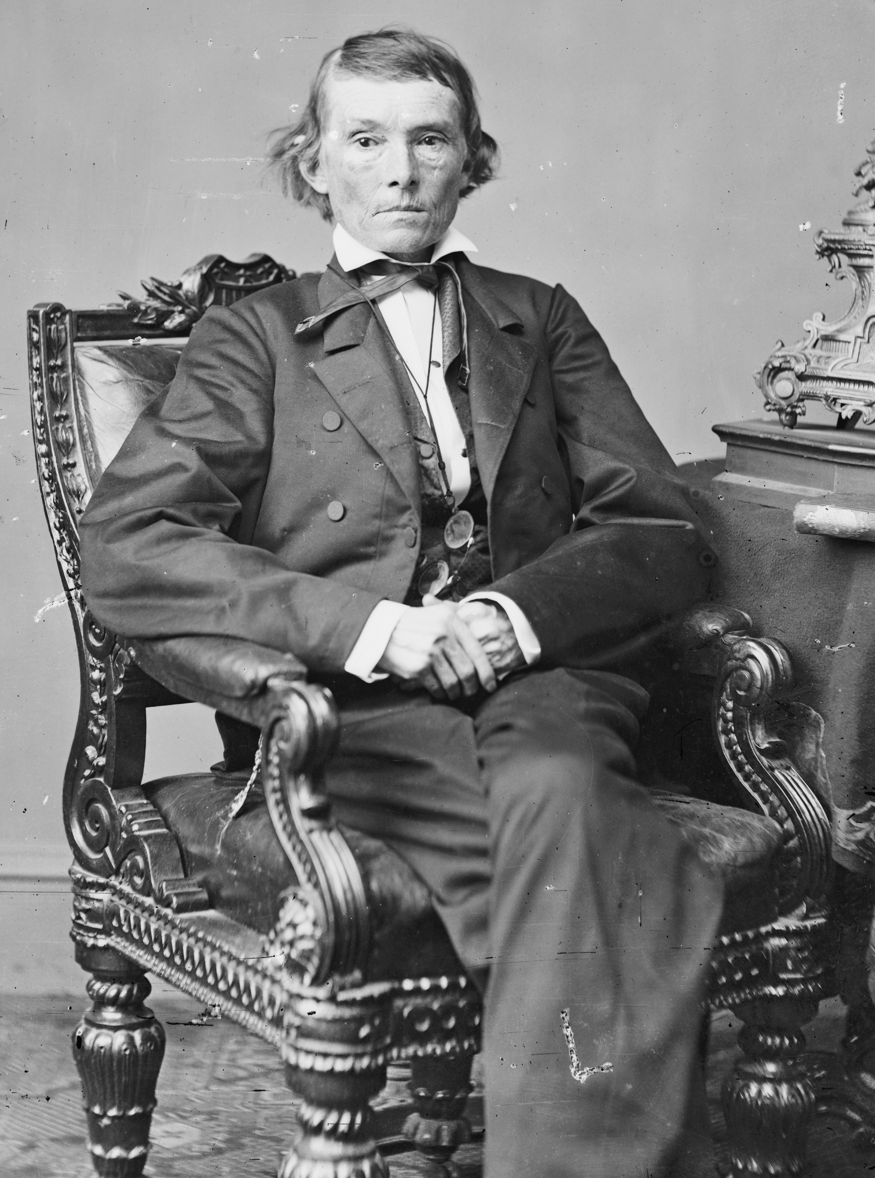 Portrait of Alexander Stephens (1812-1883)